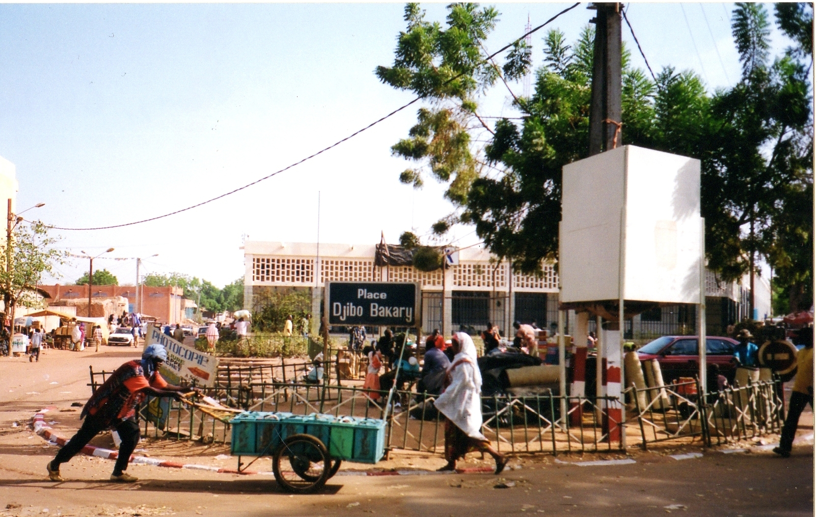 Place Djibo Bakary, Niamey, Niger